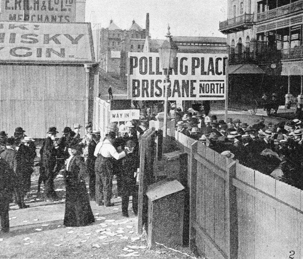 Women inside the gate of the city polling station, voting for the first time in a Queensland state election, May 1907 [suffragette movement in Queensland] On 5 January 1905, two years after the formation of the Queensland Women's Electoral League, the Electoral Franchise Bill was introduced into the Legislative Assembly to give the women of Queensland the right to vote. The Elections Acts Amendment Bill, providing the necessary machinery, was introduced at the same time. Despite some misgivings about abolishing the plural vote, and difficulty with postal voting, these issues were overcome and the legislation giving the women of Queensland the right to vote was finally passed. It was assented to by the Lieutenant-Governor on 26 January 1905.